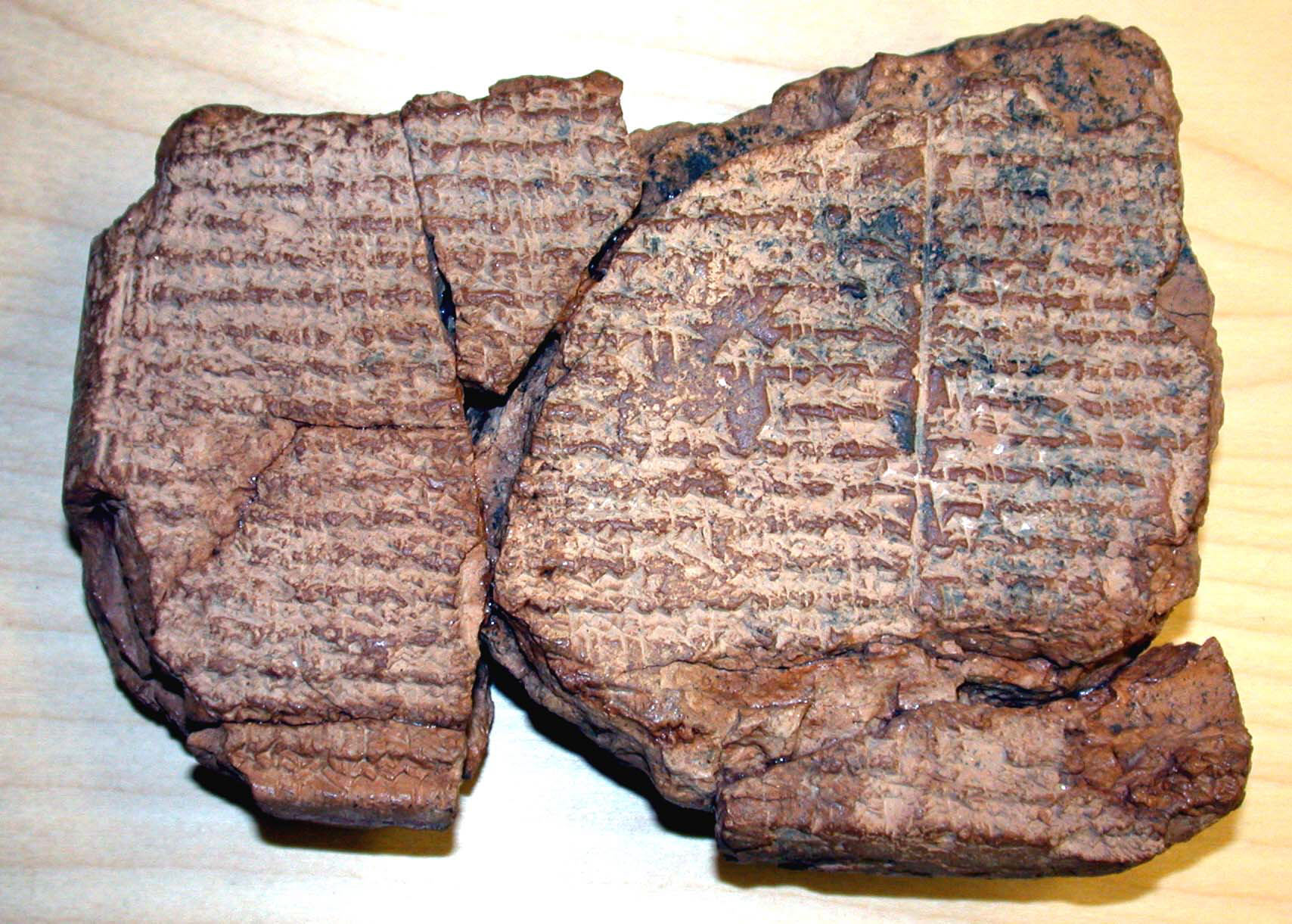 Seleucid; Cuneiform tablet; Clay-Tablets-Inscribed